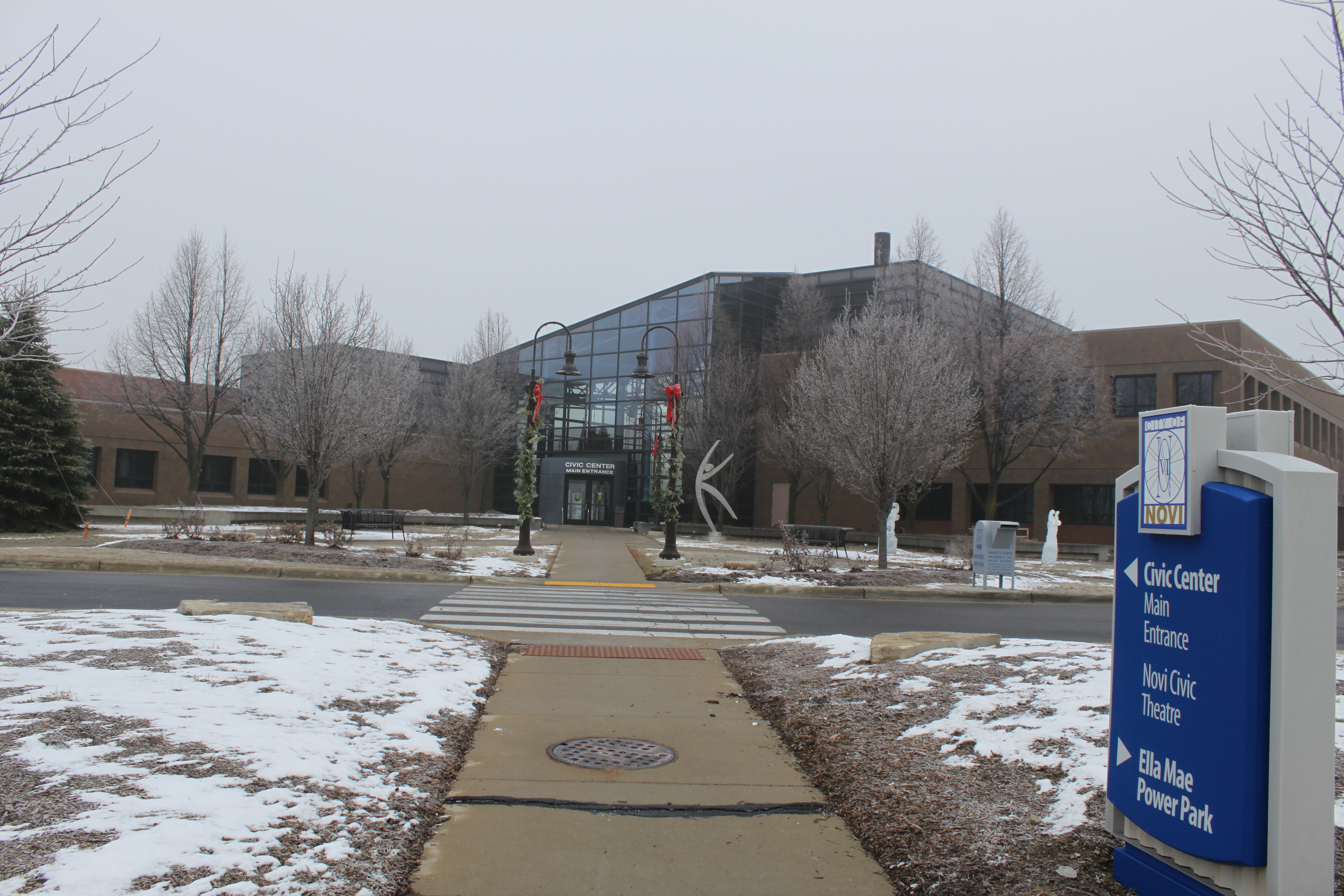 Novi Michigan Civic Center, 45175 West 10 Mile Road